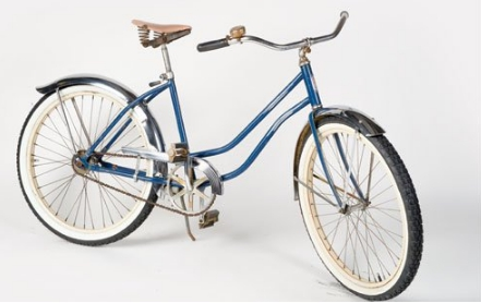 Vintage Ross Bicycle